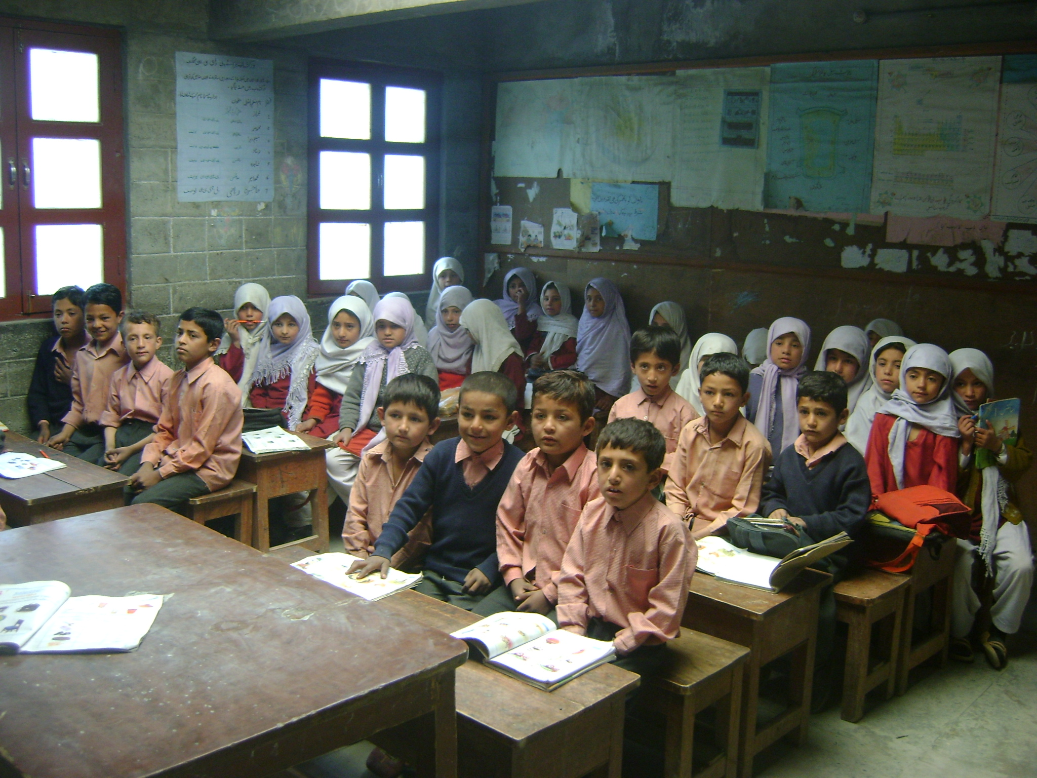 School in Rhbat village, near Chalt